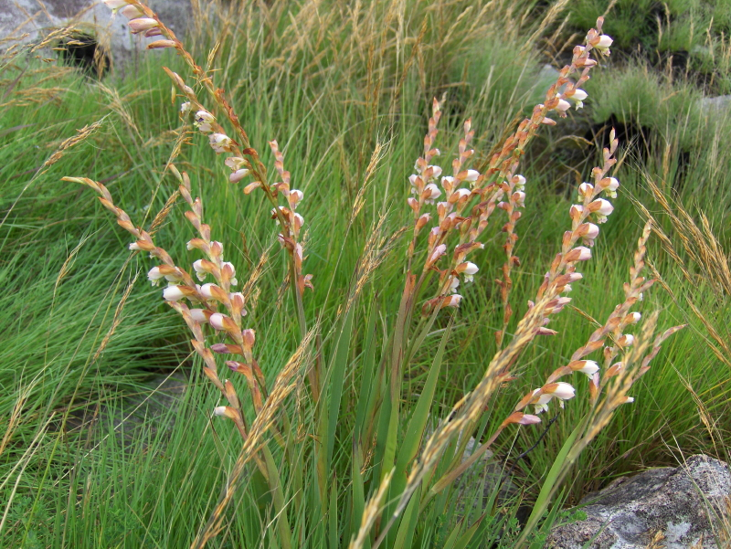 A wild Gladiolus species on Mount Gorongosa (close to Gorongosa National Park) in Mozambique.